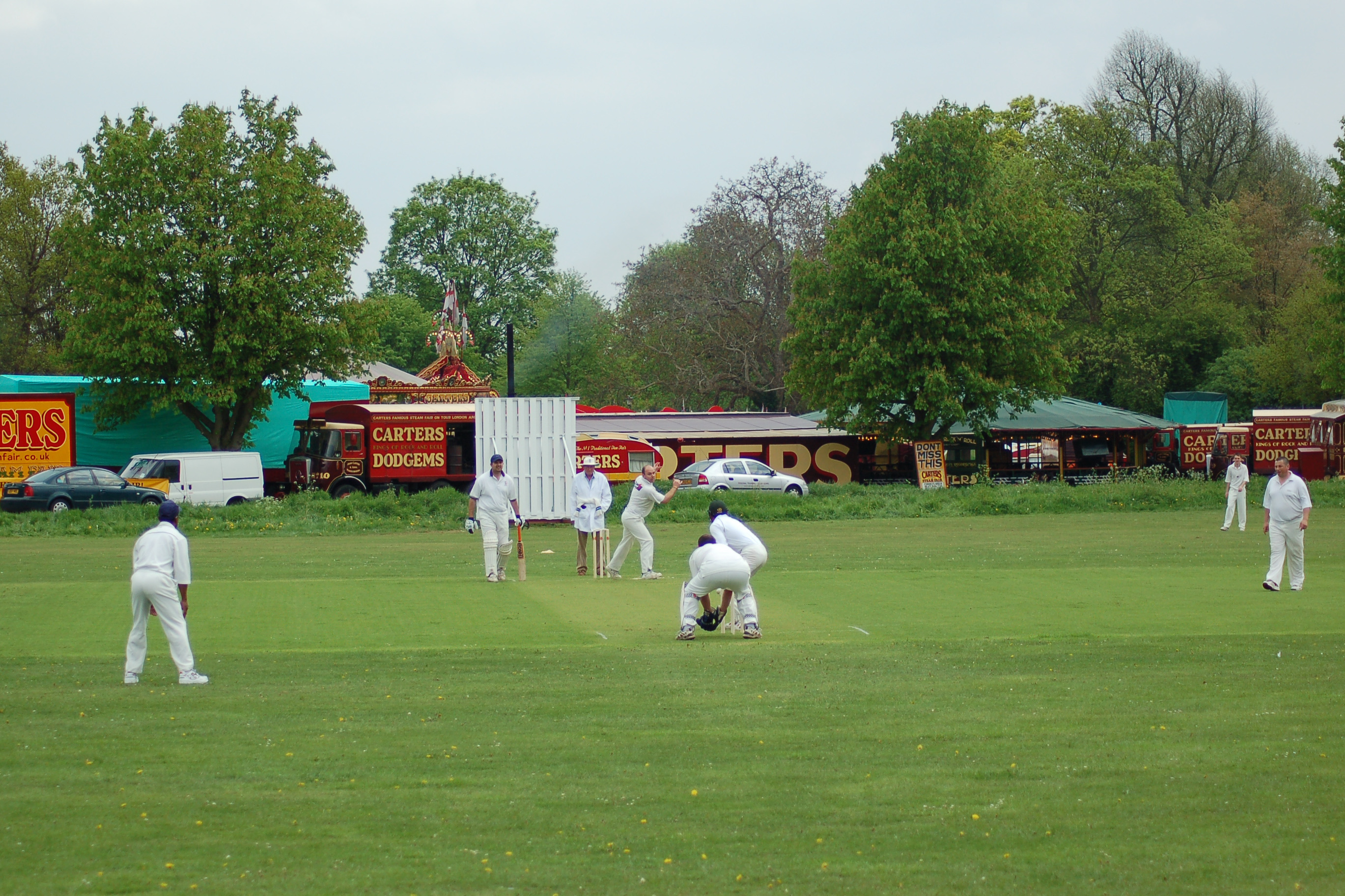 Cricket in May 2006 A village cup game v Elstead Surrey